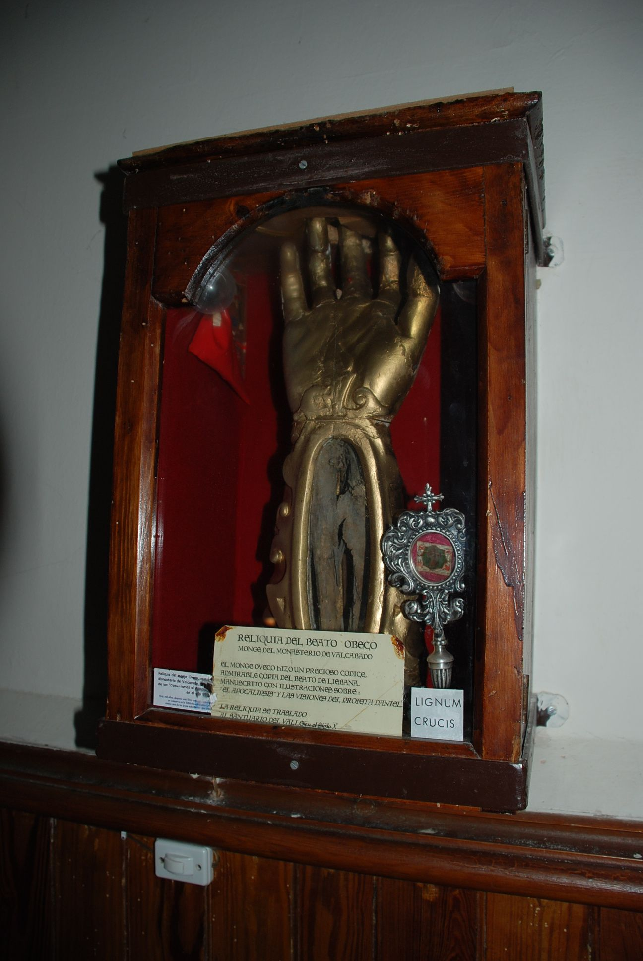 Relic of Beato Oveco, monk of the monastery of Valcavado, (Palencia, Castile and León, Spain). This relic moved to the Hermitage of the Virgen del Valle (Saldaña) in the 10th century. Oveco was the author of the manuscript Codex called Valcavado Beatus, a copy of Beatus of Liébana. This book, reproduced images of the Apocalypse and the visions of the Prophet Daniel.